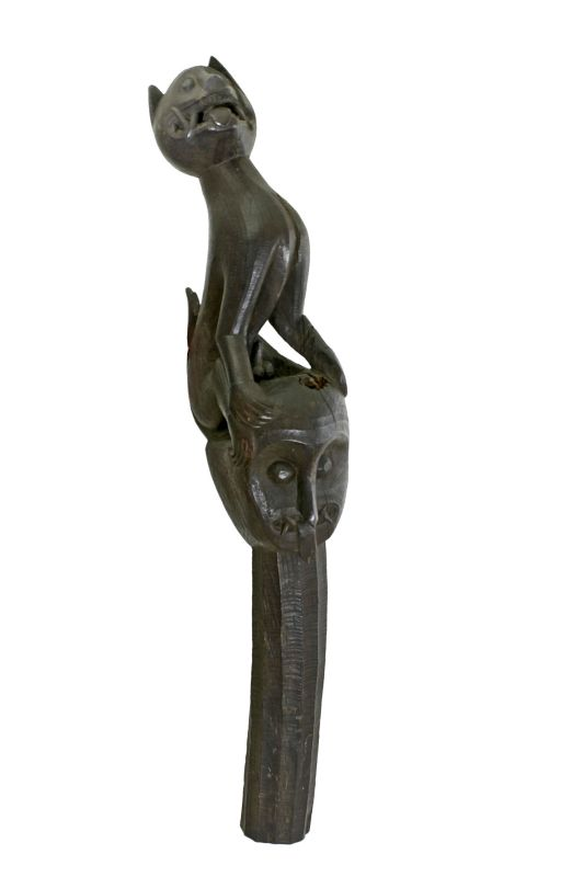 Sacrifice pole [sependu]